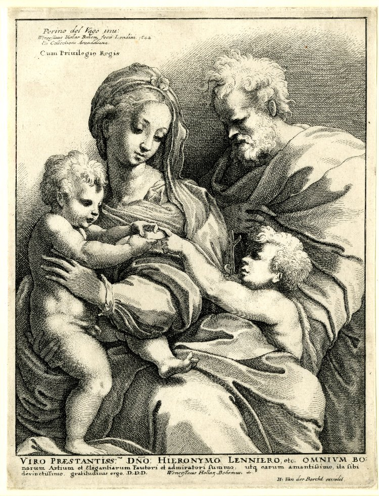 "The Holy Family," etching, by the Czech-English artist and printmaker Wenceslaus Hollar. Etching, dated 1642. 216 mm x 166 mm. Courtesy of the British Museum, London.